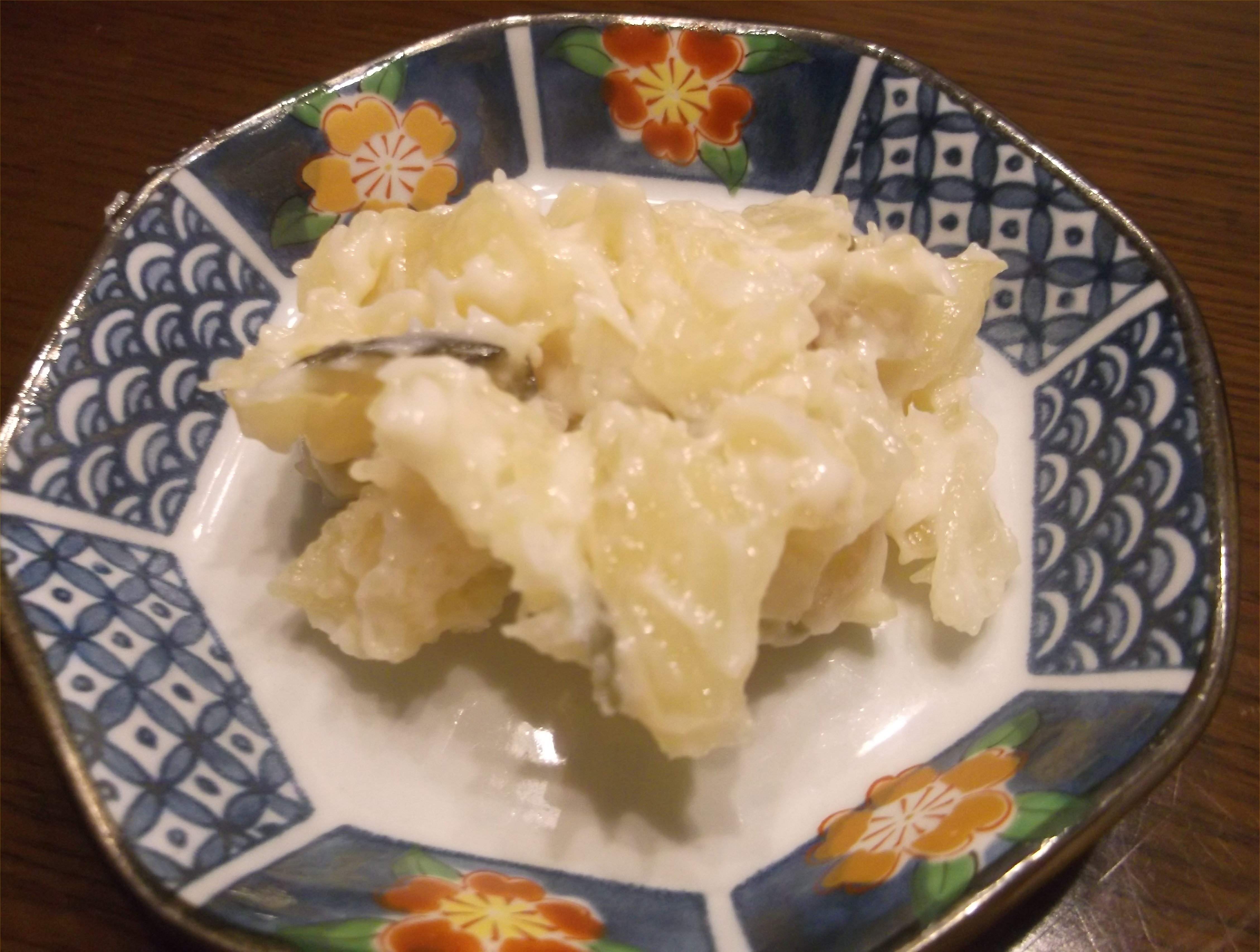 A photo of "kazunoko wasabi "(herring roe with wasabi)(a kind of Japanese side dish.)